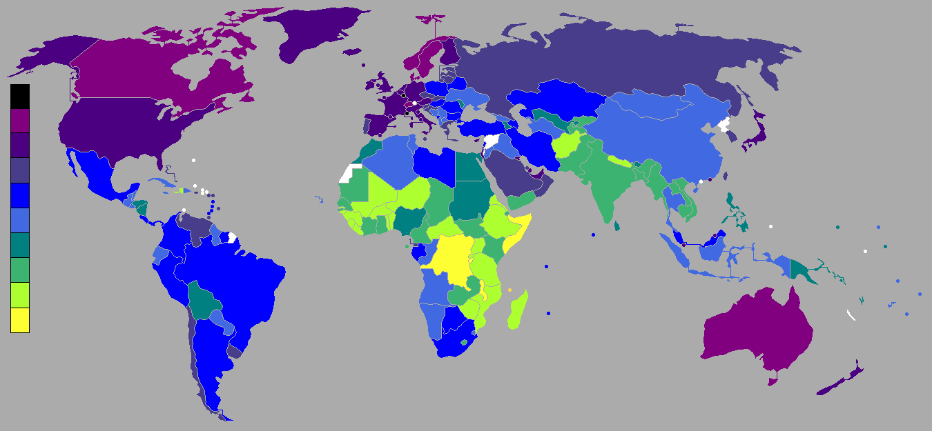 GDP per capita nominal